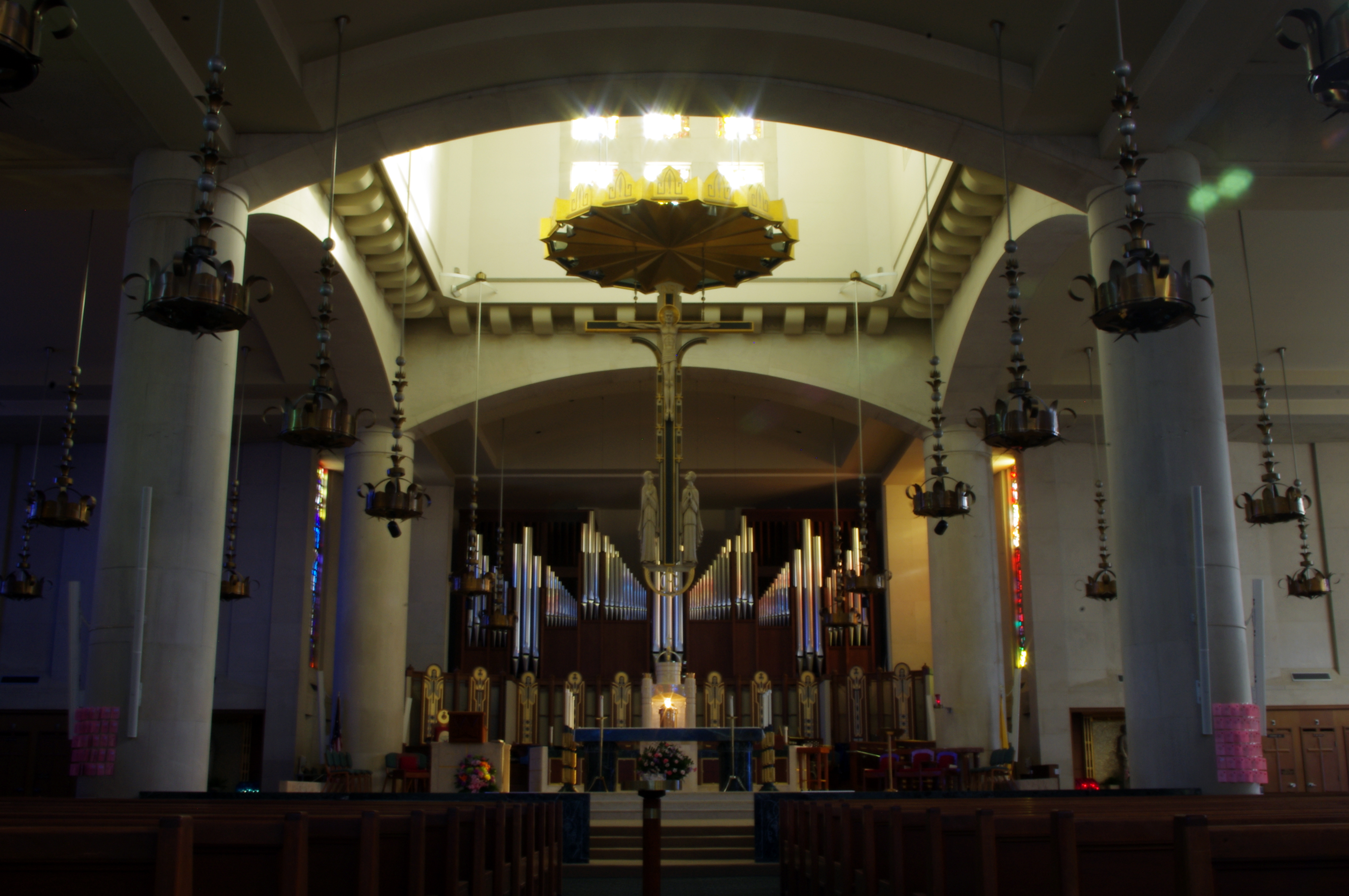 Cathedral of Christ the King (Lexington, Kentucky), interior, nave